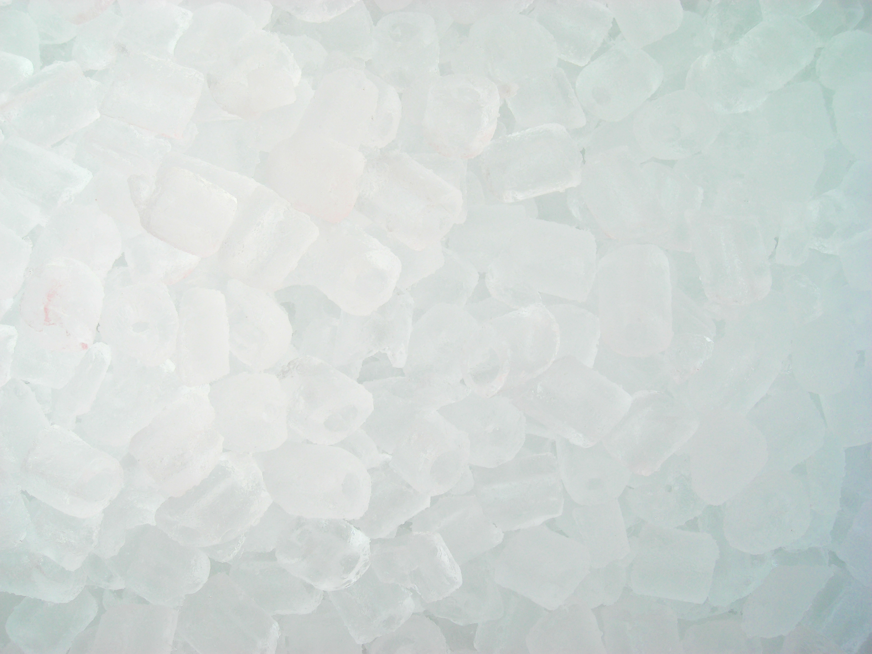 Ice cubes for beverages - hollow cylinders, typically used in Thailand.